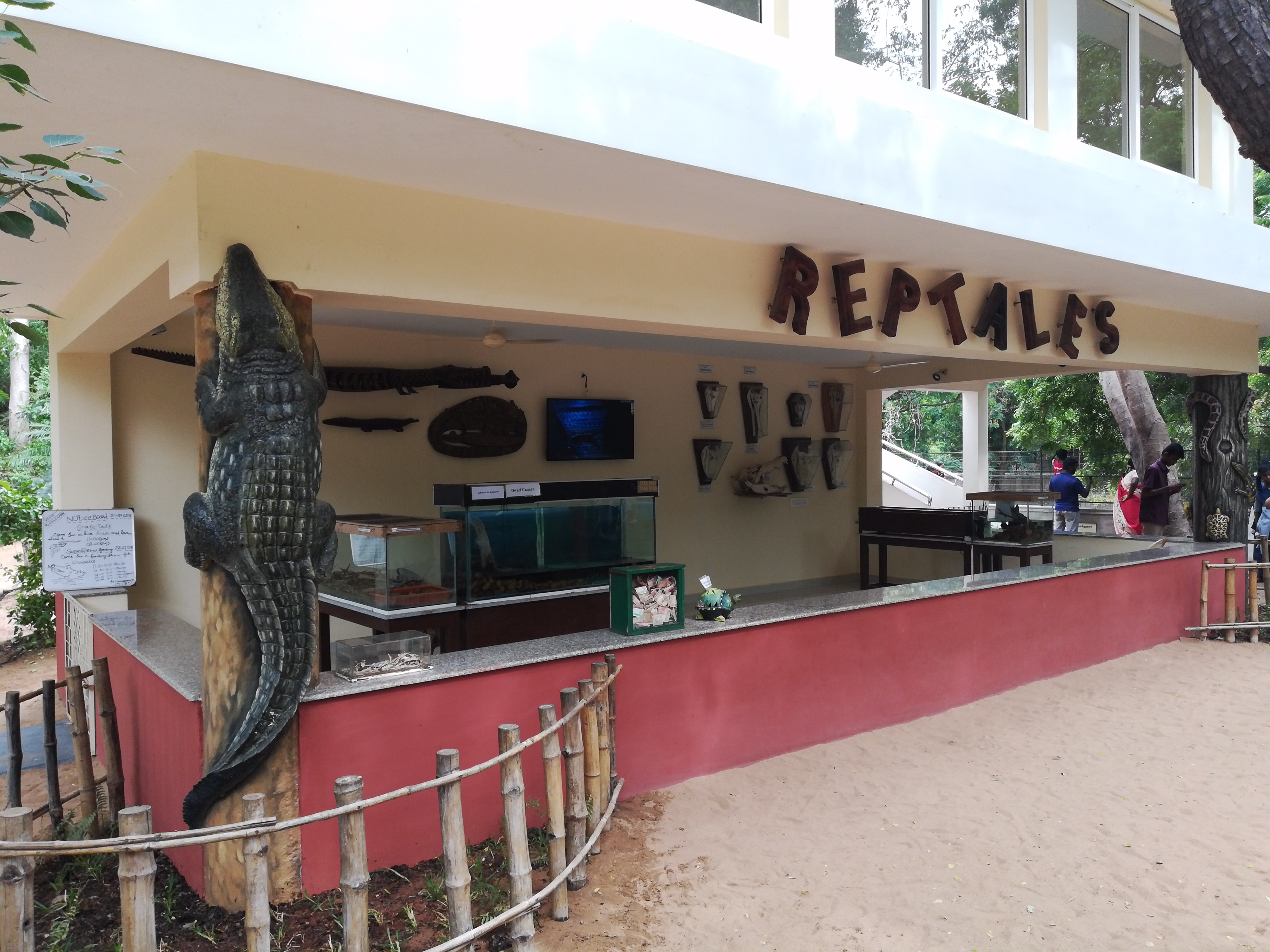 Public demonstration and education centre, CrocBank, Chennai, on 21 July 2018